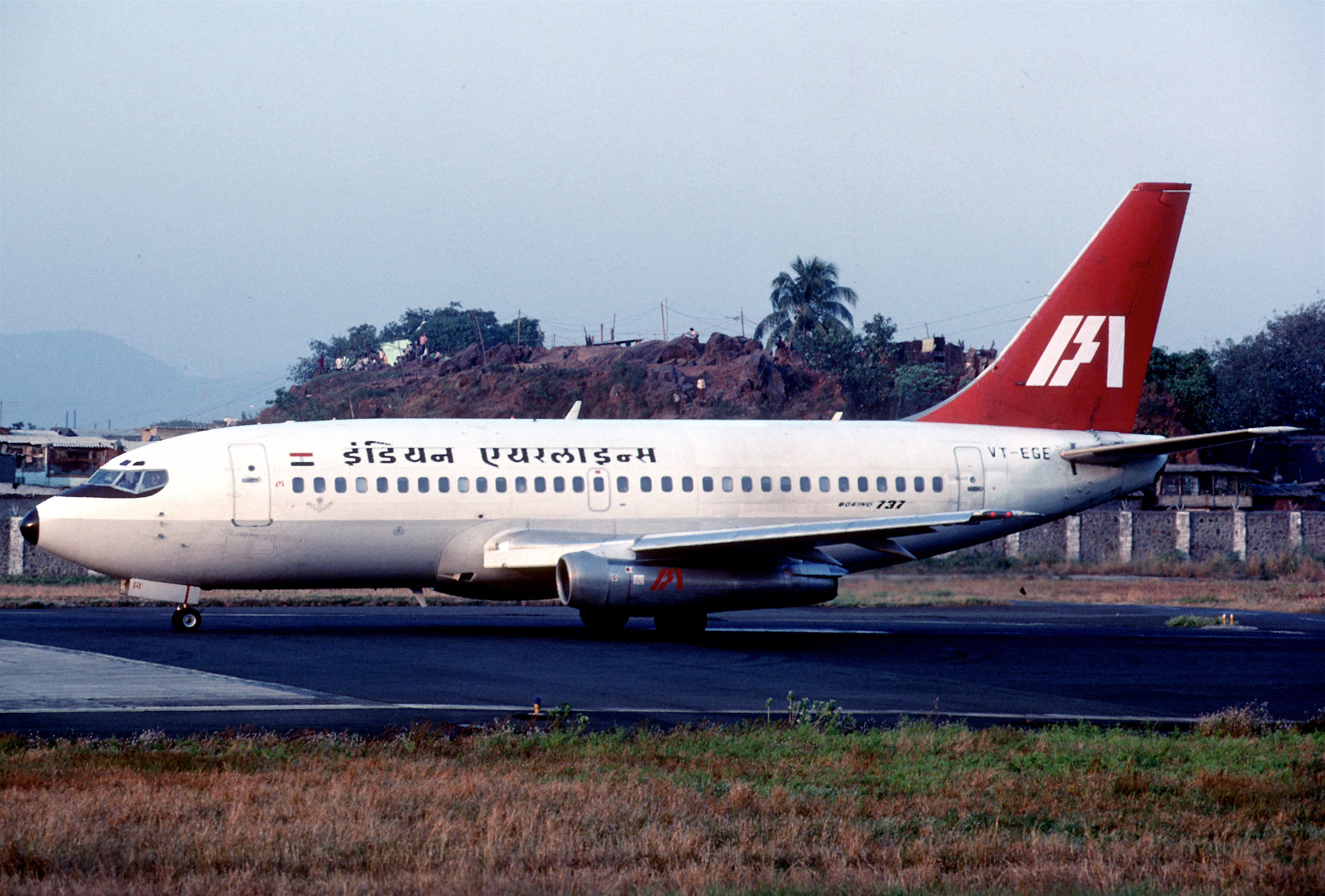 Indian Airlines Boeing 737-2A8; VT-EGE, December 1998/ BUI